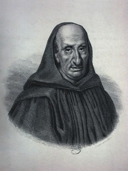 French historian and Benedictine monk Michel Jean Joseph Brial (1743-1828)